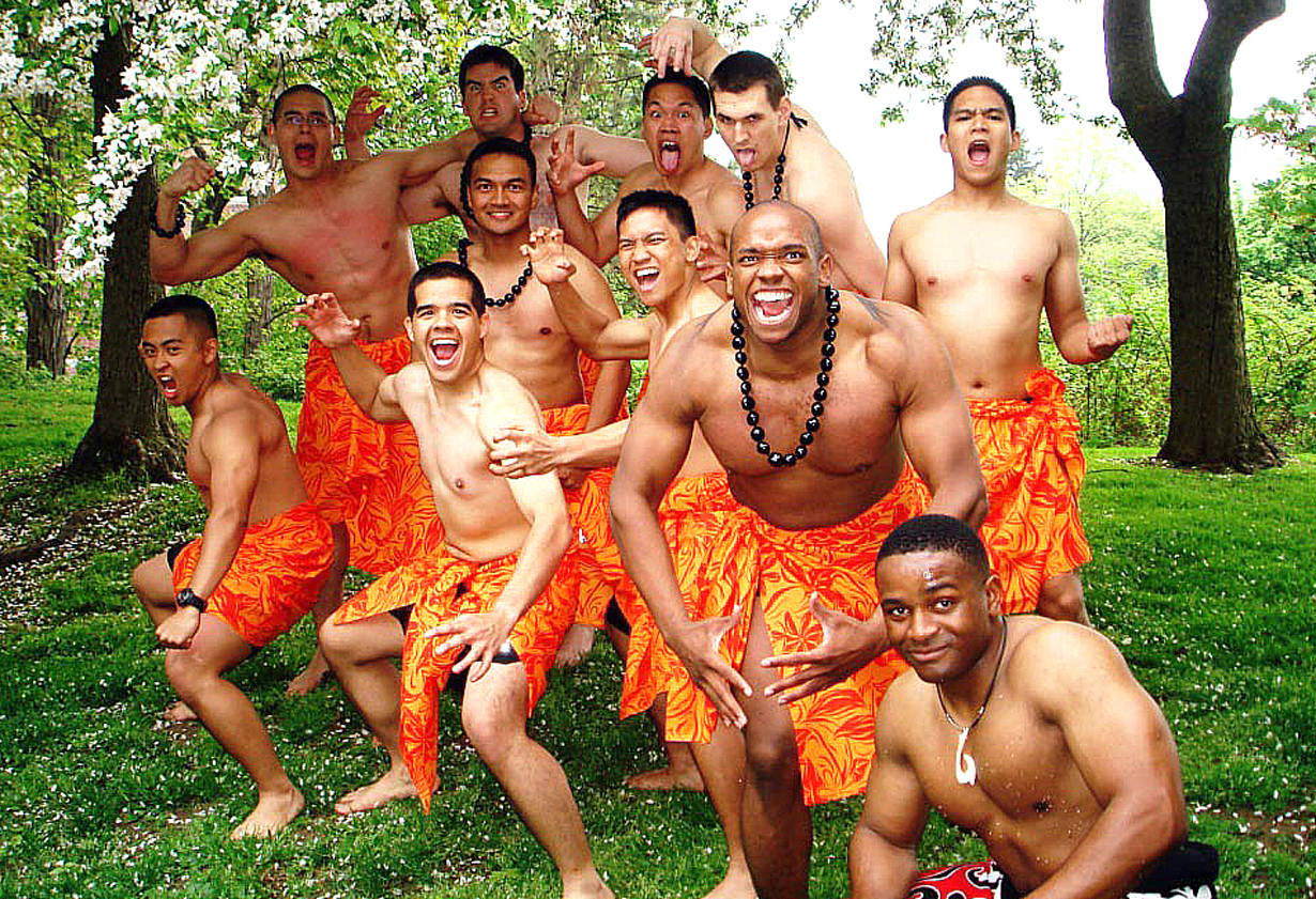 Cadets performed the Haka Dance during the eighth annual West Point Asian Pacific American Observance Celebration Friday at Trophy Point. A Haka is a traditional posture dance form with shouted accompaniment of the Maori of New Zealand. West Point celebrates Asia-Pacific American Heritage month See more at Army.mil